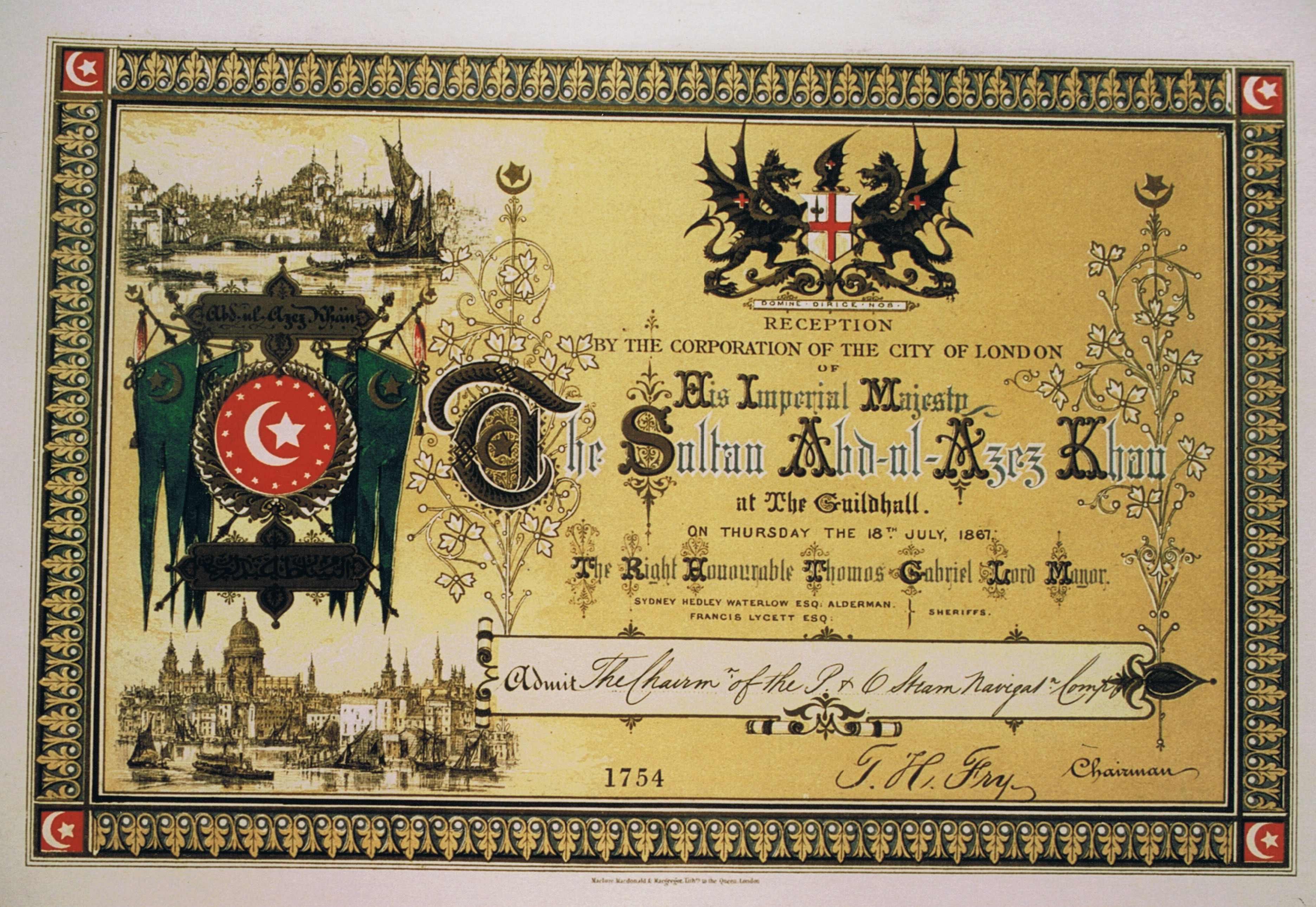 My photo (R. de Salis, Rodolph (talk) 12:10, 25 February 2014 (UTC)) of an Admission ticket to Lord Mayor Thomas Gabriel's reception of H.I.M. The Sultan Abd-ul-Aziz Khan at The Guildhall, 18 July 1867 issued to the Chairman of P. & O. Navigation Company.